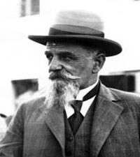 Yugoslav politician. He served as Prime Minister of Yugoslavia from April 17, 1927 until July 28, 1928.